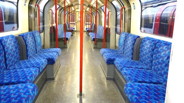 Interior of 1992 Stock, having undergone the 2011 Refresh.